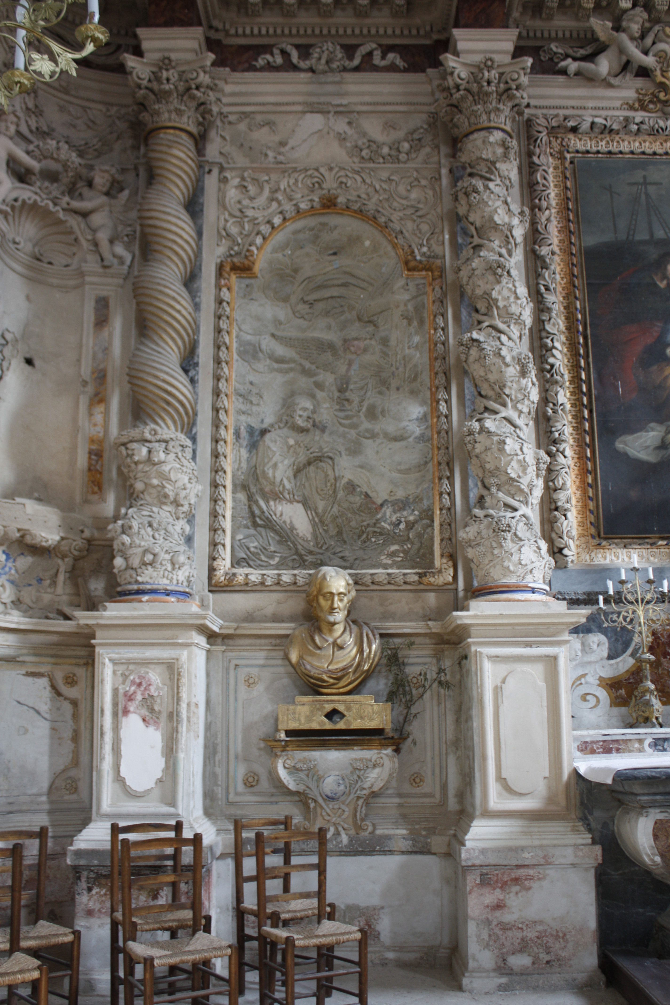 Panel, on left of the altarpiece representing the last night of Jesus: "The Garden of Olives." In front of that is placed a gilded wooden reliquary bust Saint Modestus).